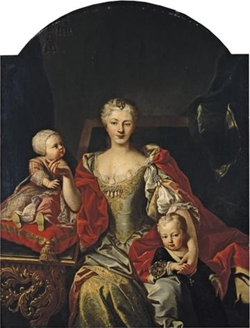 Portrait of Polyxena Christina of Hesse-Rotenburg with her two oldest children, the future Victor Amadeus III and Eleonora (Uncropped version)